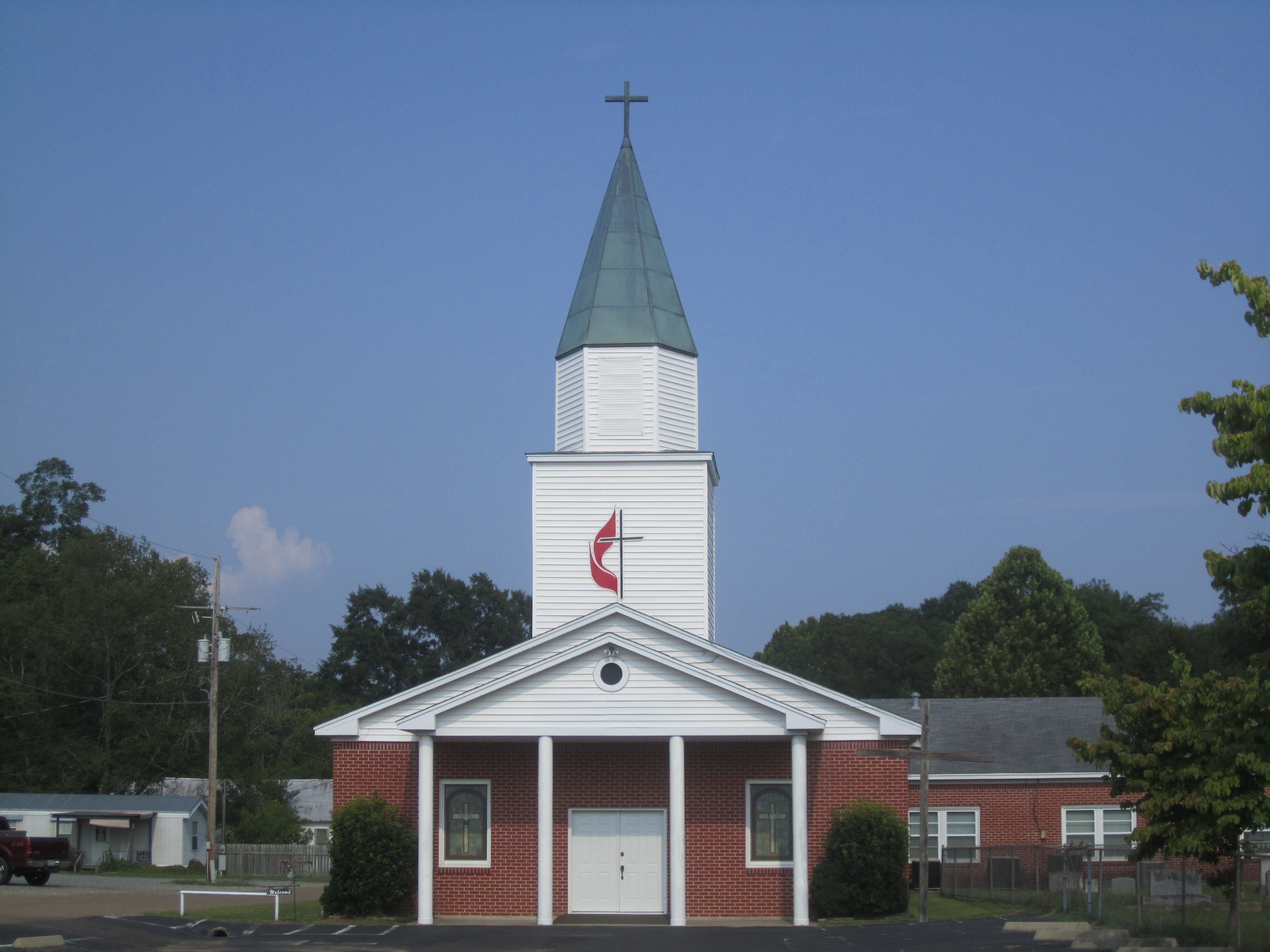 I took photo with Canon camera in Sibley, LA.